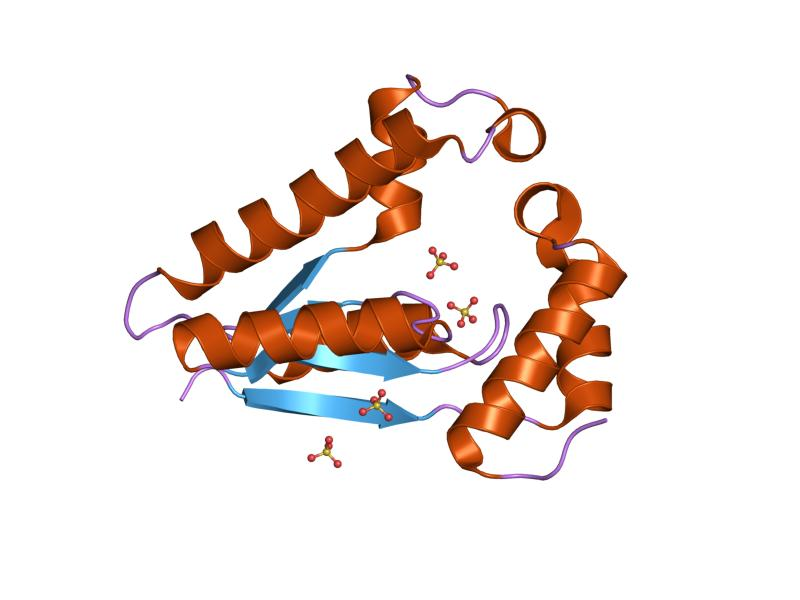 Cartoon representation of the molecular structure of protein registered with 1ly1 code.